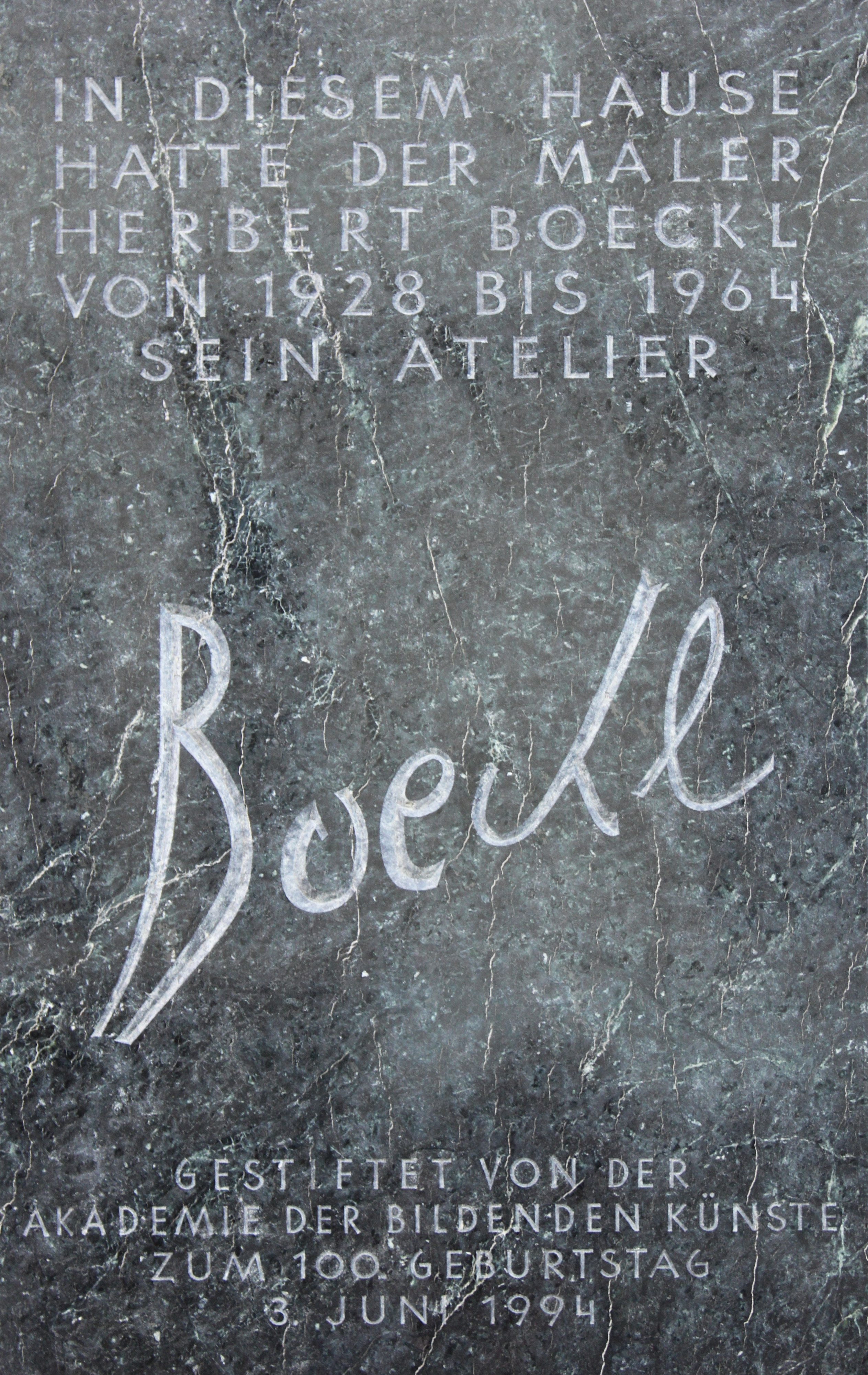 Herbert Boeckl